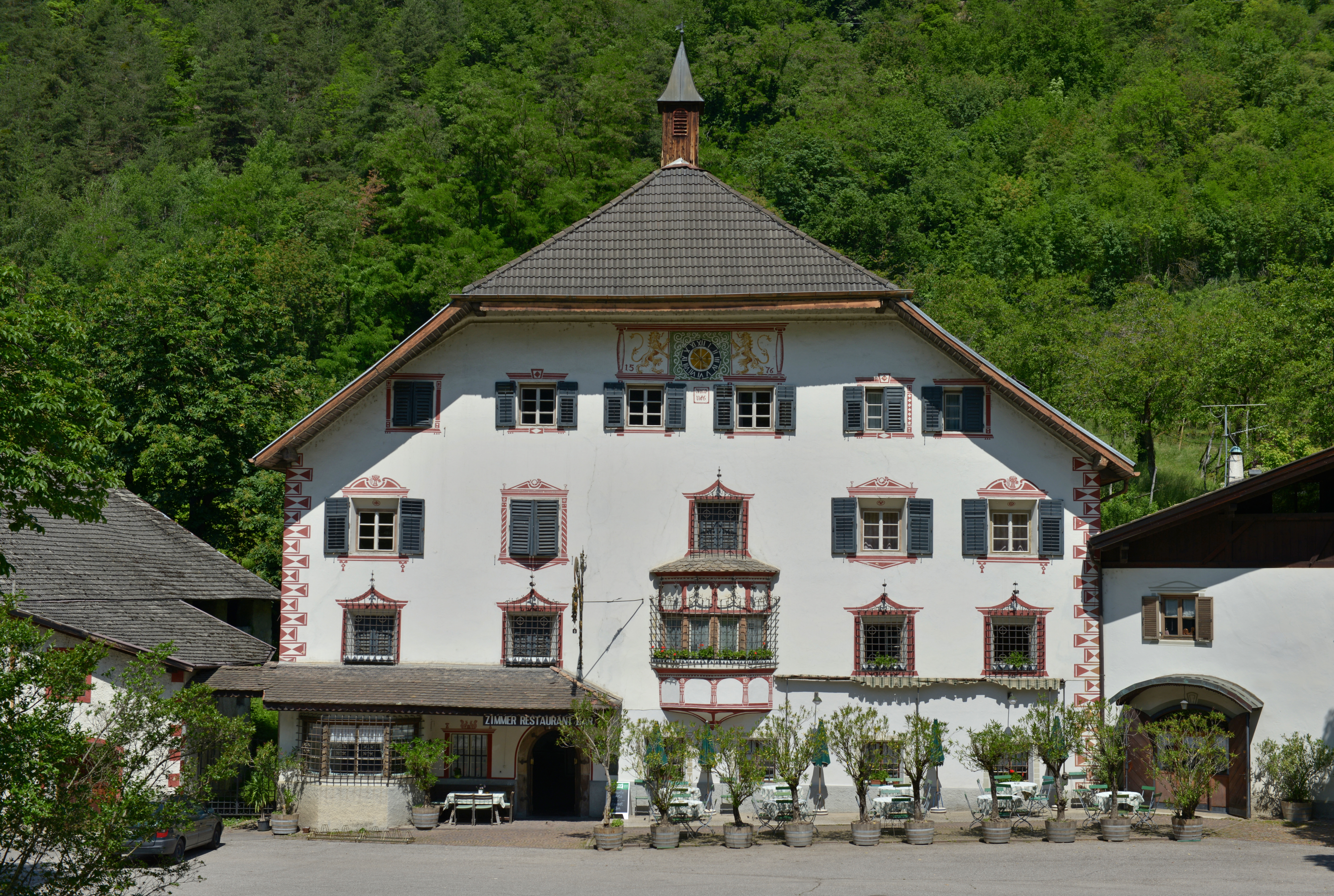 Old Gasthaus in Atzwang.